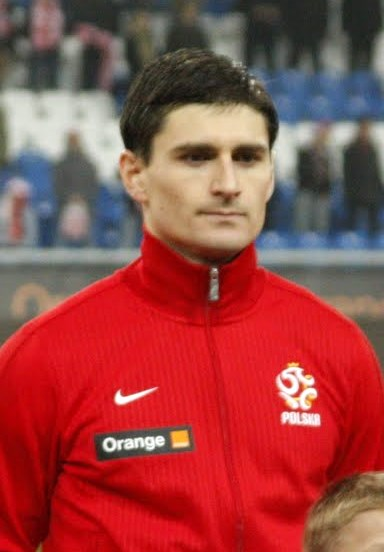 Polish football player Marcin Komorowski